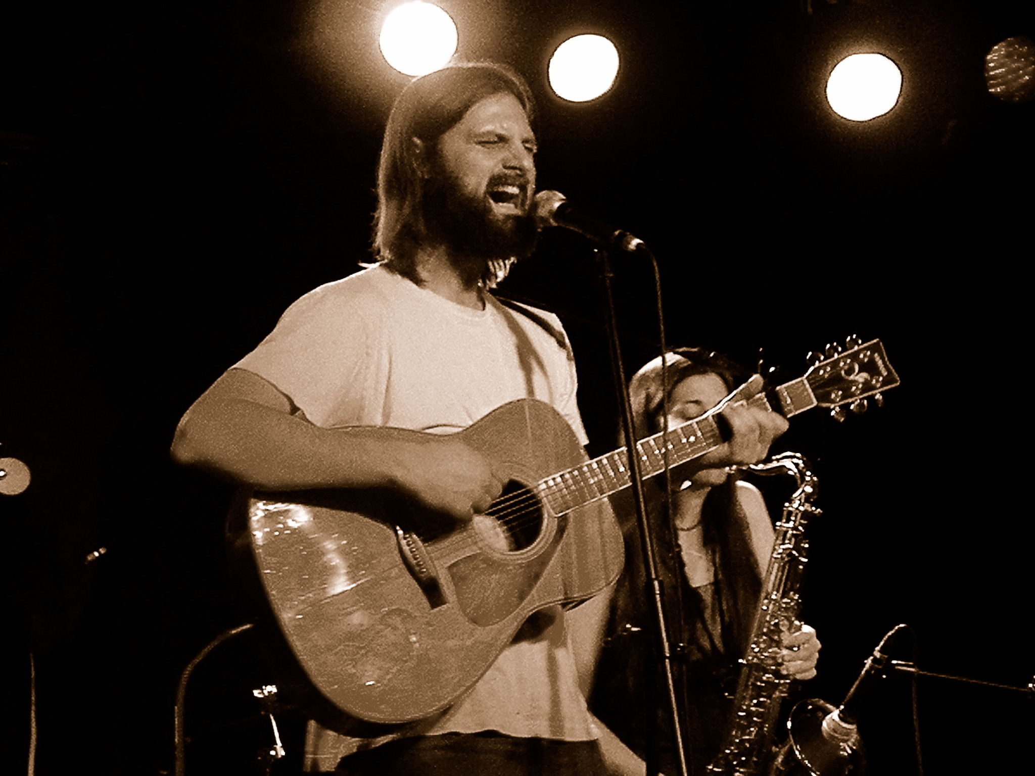 Caleb Stine live at Aural States Fest 2010